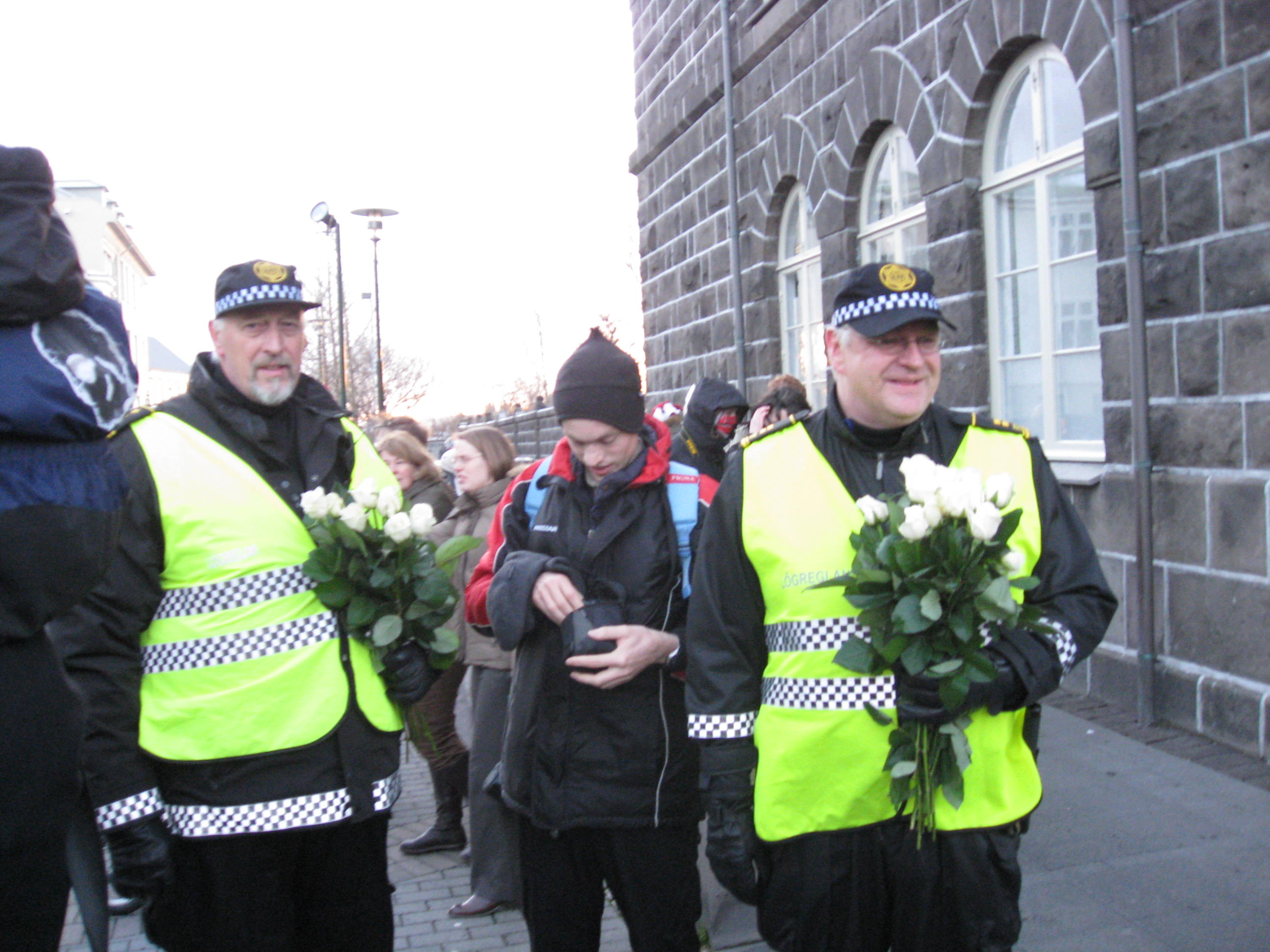 Protests on Austurvöllur because of the Icelandic economic crisis. Protesters have given flowers to police officers.